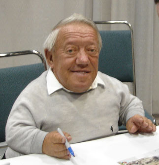 Star Wars Celebration IV - Me and Kenny Baker (R2-D2)